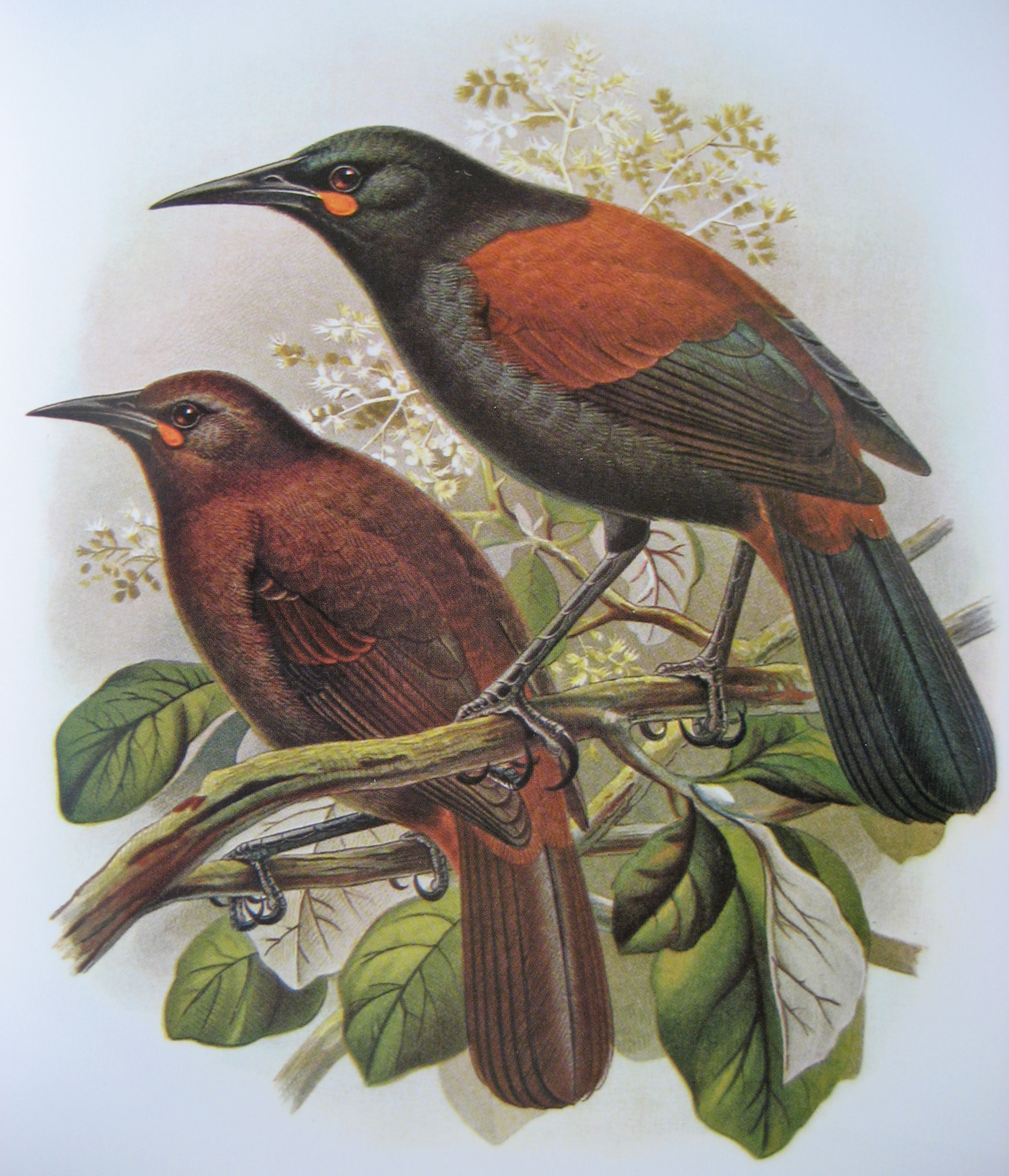 Tieke or Saddleback. Adult in front, young of South Island subspecies at rear. Hand painted lithographic print.